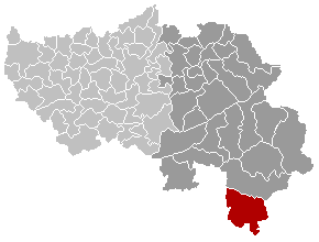 Map, municipality belgium Burg-Reuland